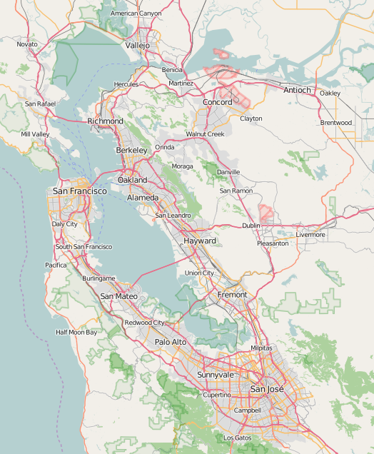 Location map of the San Francisco Bay Area. This map of San Francisco Bay Area, Northern California, United States was created from OpenStreetMap project data, collected by the community. This map may be incomplete, and may contain errors. Don't rely solely on it for navigation.